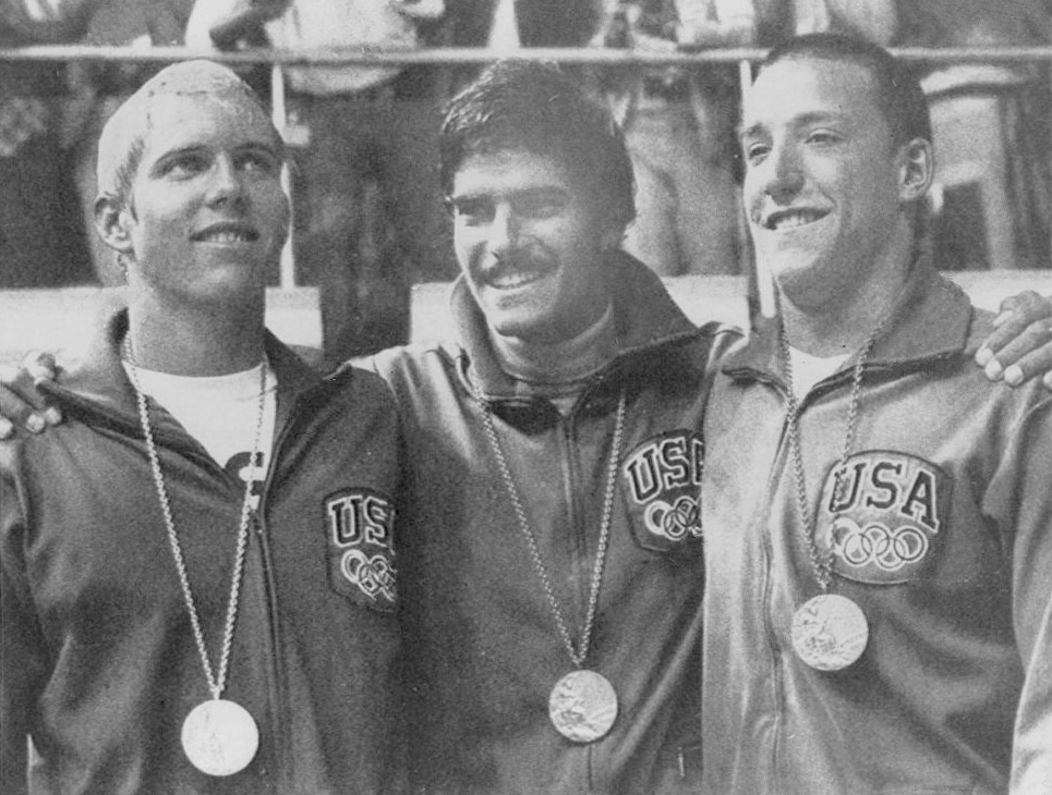 LG52 1972 Wire Photo MARK SPITZ GARY HALL ROBIN BACKHAUS Olympic Swimmers Medals